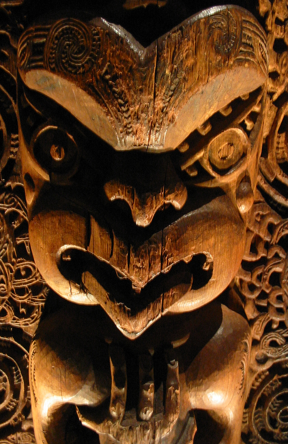 Detail from a tāhūhū (ridgepole of a house), Māori, Ngāti Warahoe subtribe of Ngāti Awa, Bay of Plenty, New Zealand, circa 1840. Believed to represent one of two ancestors: Tūwharetoa or Kahungunu. Auckland Museum, 20 May 2006. Photo by the uploader, no rights reserved. Kahuroa 18:54, 24 May 2006 (UTC)